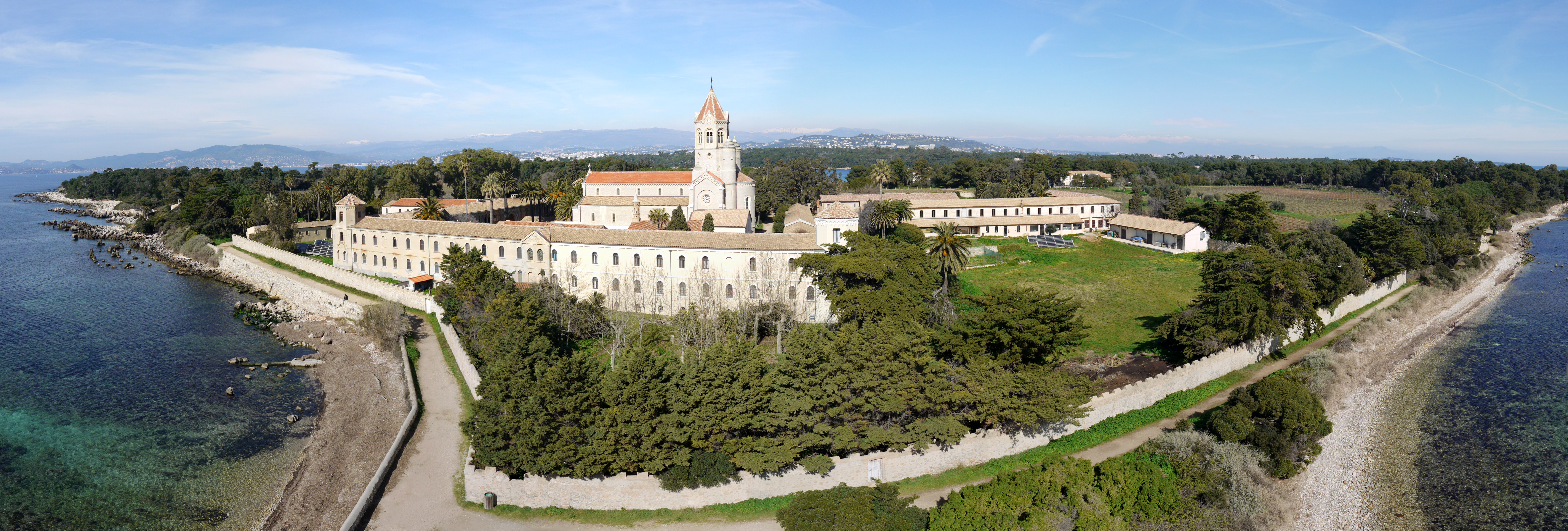 Monastery and Island of Saint Honorat, Not far away from Cannes, France.